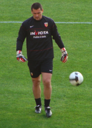 Vedran Runje Goalkeeper